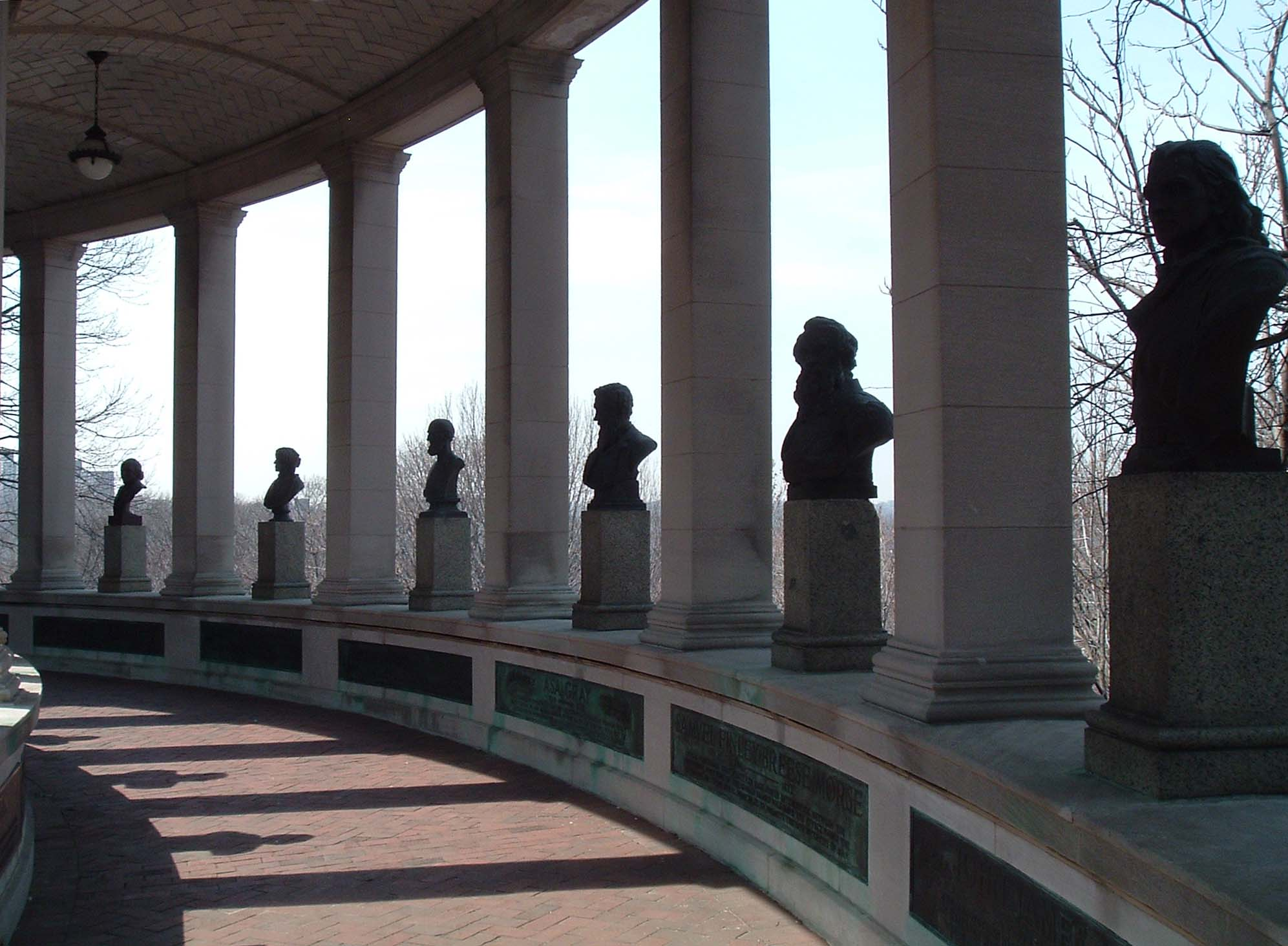 View of the "Hall of Fame for Great Americans" in New York City